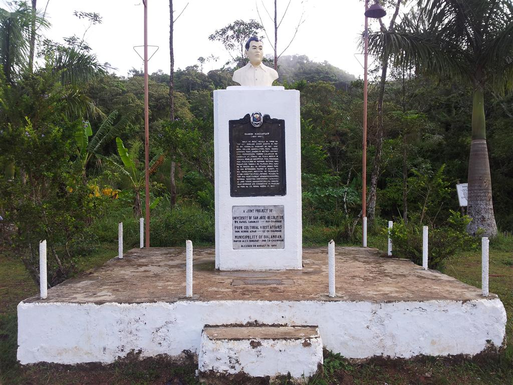 The monument of Pres. Magsaysay at the crashed site in Mt. Manunggal, Balamban, Cebu.